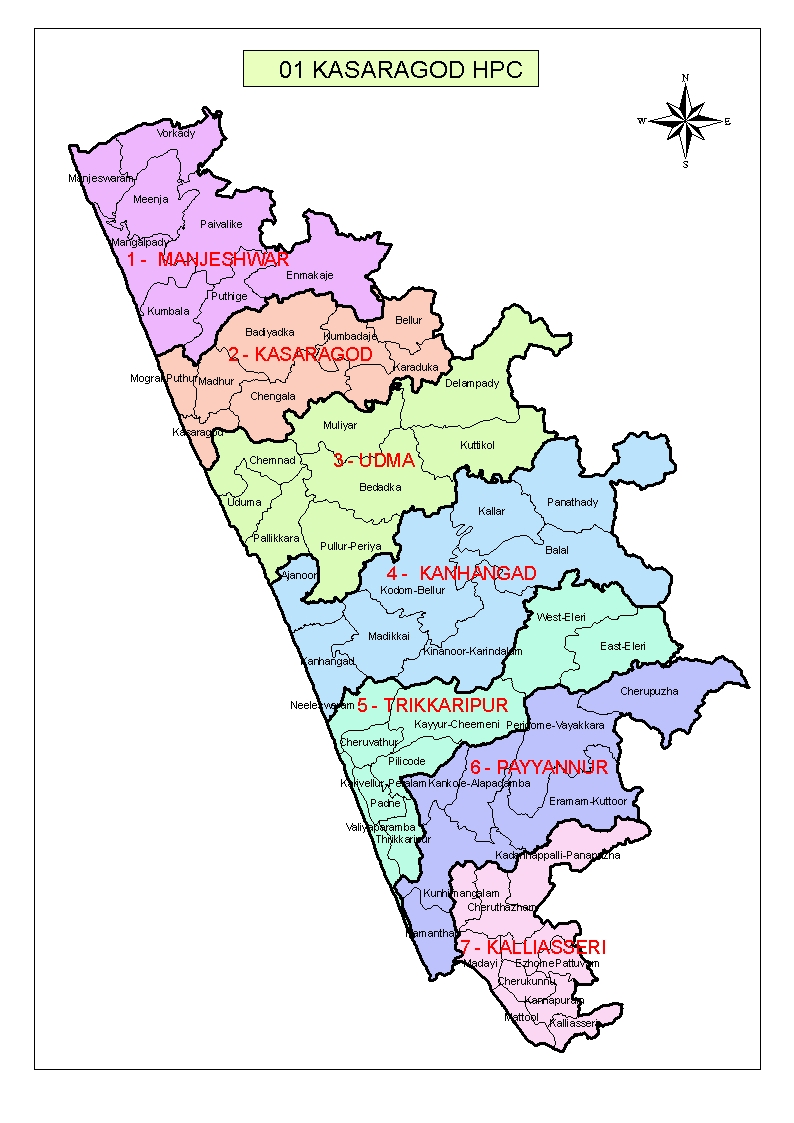 This is the map of Kasaragod Lok Sabha Constituency